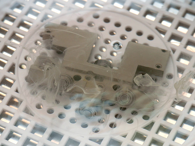 Image shows an ultrasonic cleaner inside, dirt is separated from the item.